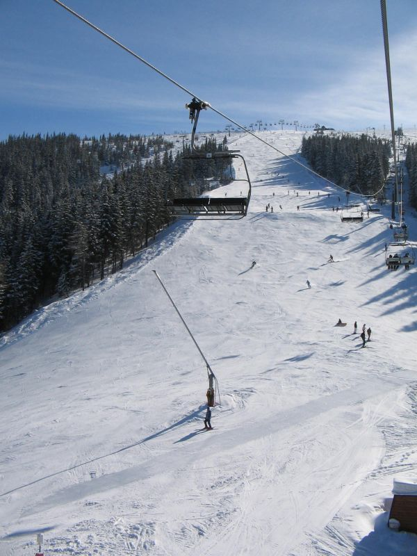 View from chairlift Otupné–Luková in Jasná ski resort. On horizont there is chairlift Koliesko–Luková